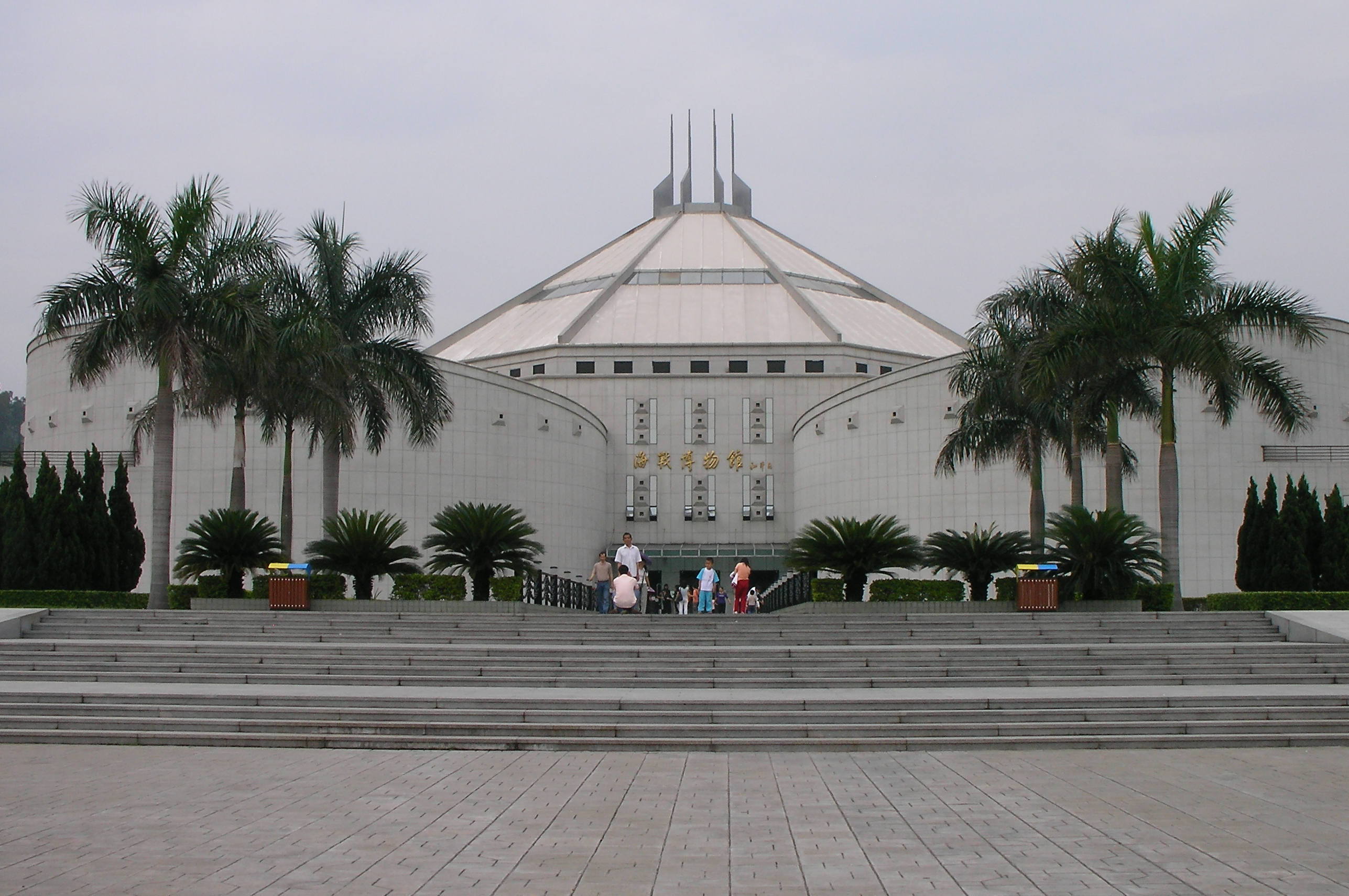 Entrance to the Sea Battle Museum in Humen Town, Dongguan, China